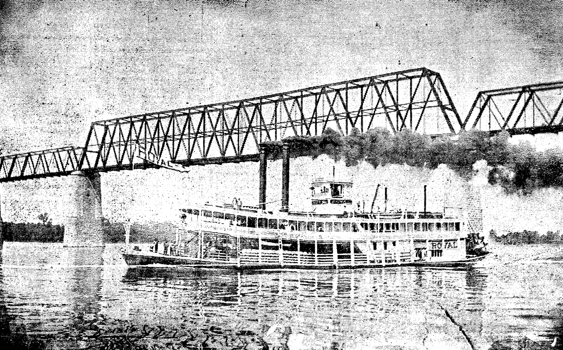 Louisville and Nashville Railroad (L&N) Bridge in Henderson, Kentucky (1893)